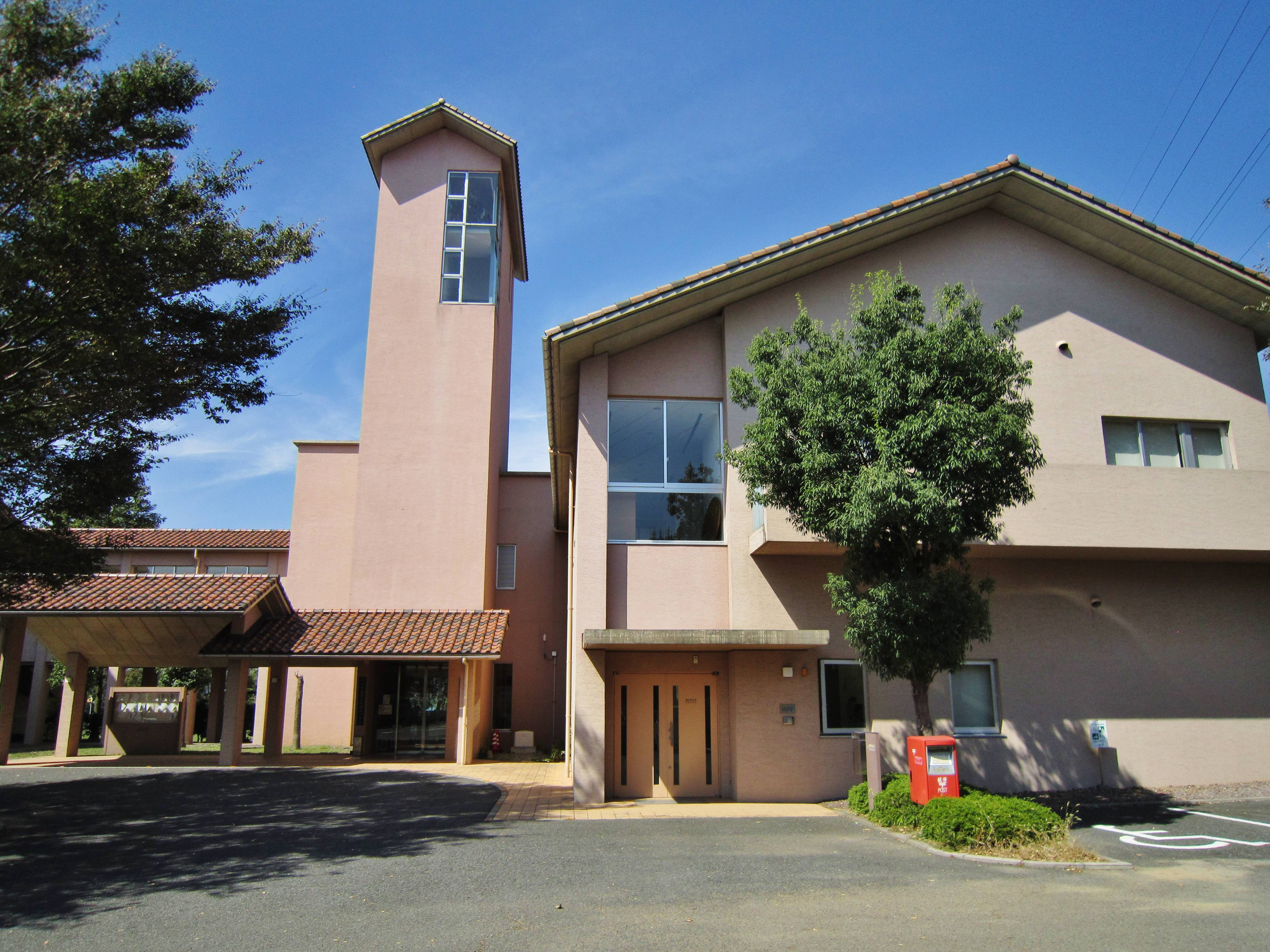 Shibukawa city Hokkitsu (Kitatachibana) branch office.